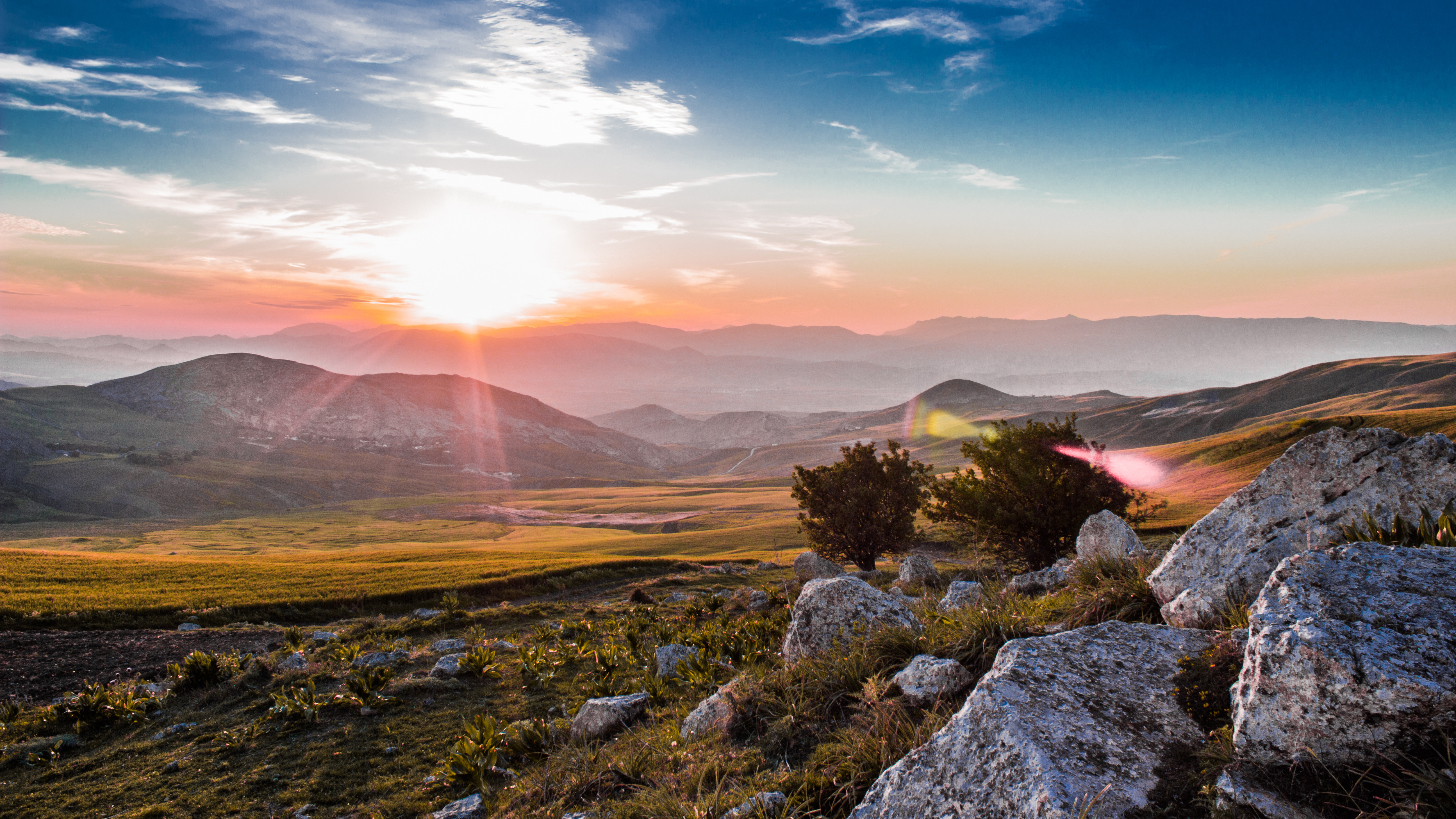 The Atlas mountain of Ouled el kayam, Mila Province, in the north of Algeria